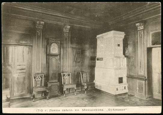 Saint Petersburg (Russia), Menshikov Palace.